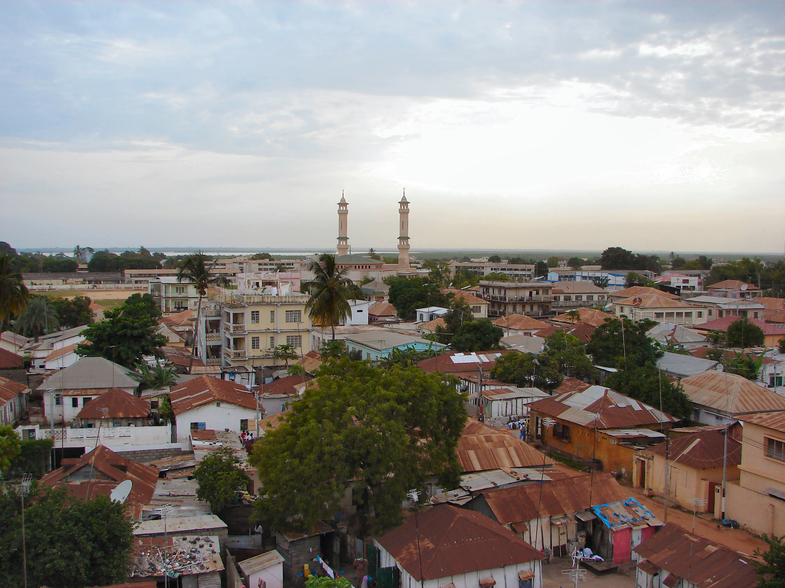 A view of the King Fahad Mosque in Banjul, The Gambia, as seen from the Carlton Hotel. Poverty and royalty lives close together in this city.